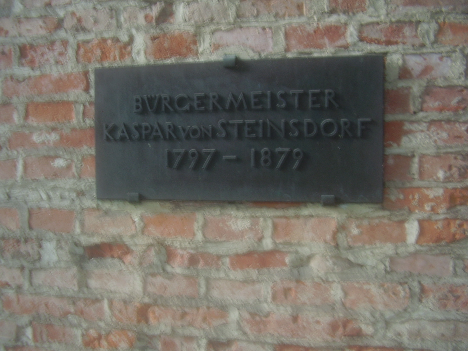 Grave of Kaspar von Steinsdorf (1797-1879)